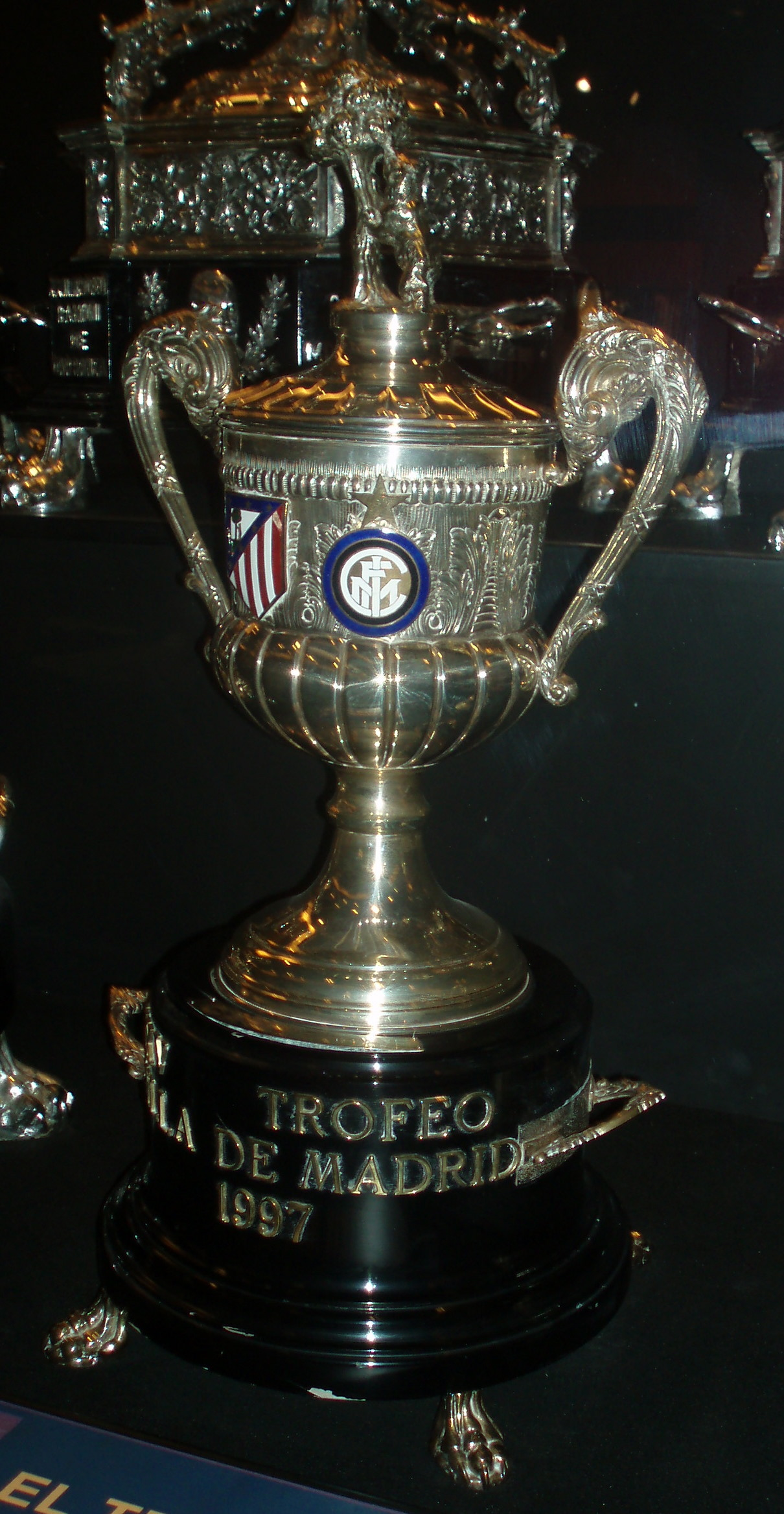 Villa de Madrid trophy in 1997 (Atlético Madrid´s Museum).